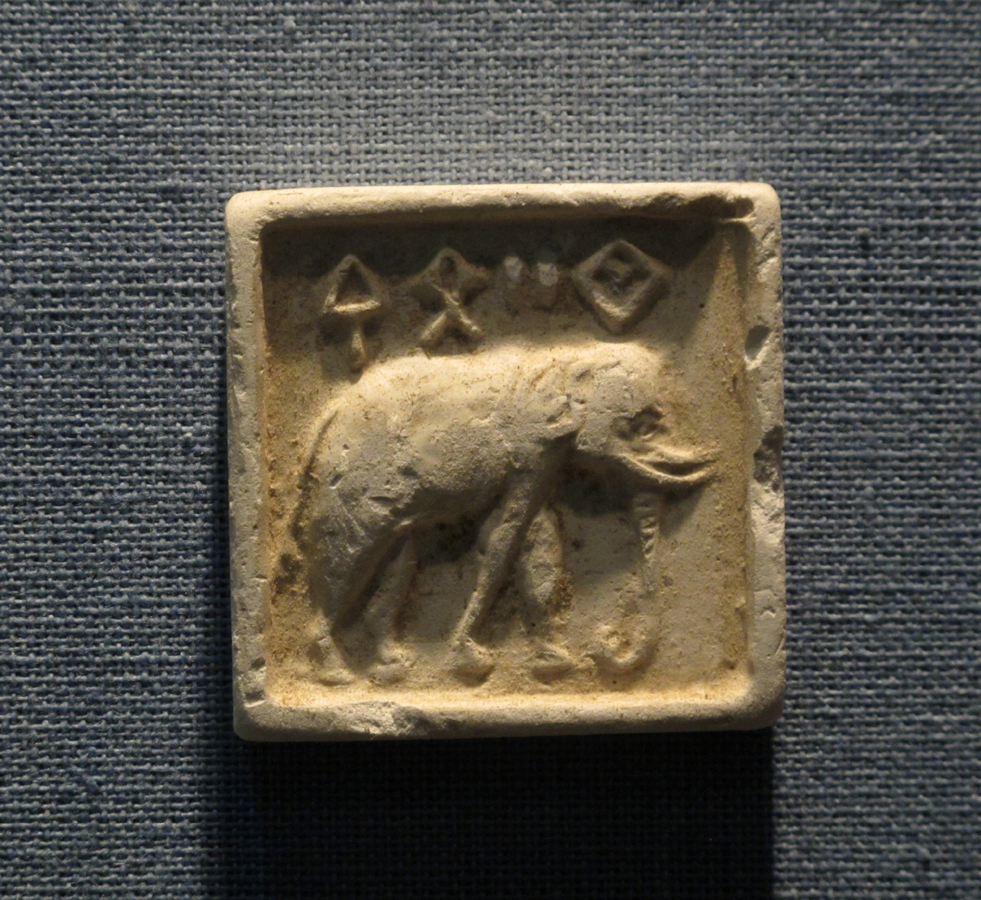 Elephant in movement. Mold of a seal, Indus valley civilization 2500-1500 BC. State Museum, Bhopal. India.